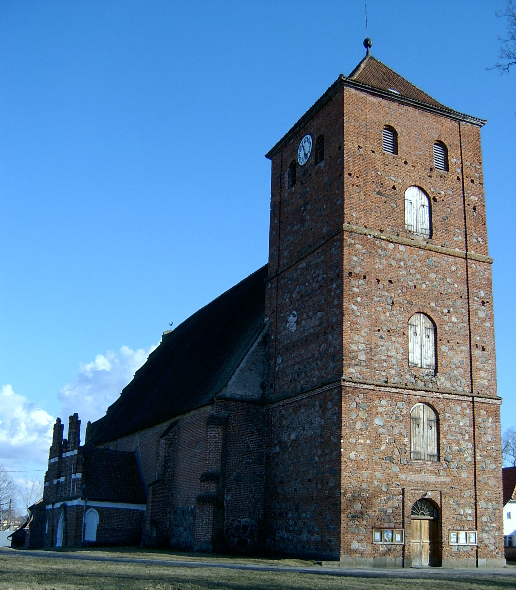 Church in Barciany in Poland